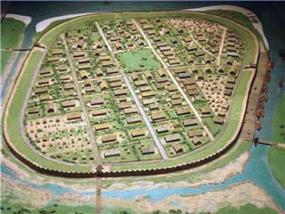 Aarhus. A reconstruction of the town at about 900 CE. At that time the Viking city's name was Aros [norse Ár-os, meaning stream's-mouth].